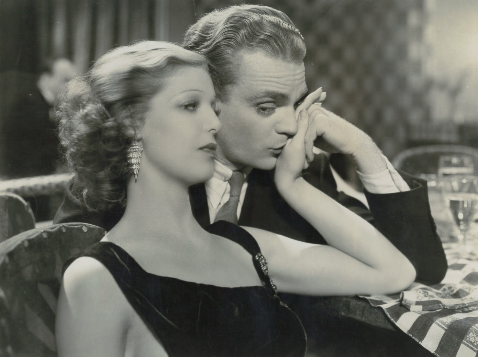 Scene from the American pre-Code film Taxi! (1932) with James Cagney and Loretta Young. The still is derived from this PD item: .